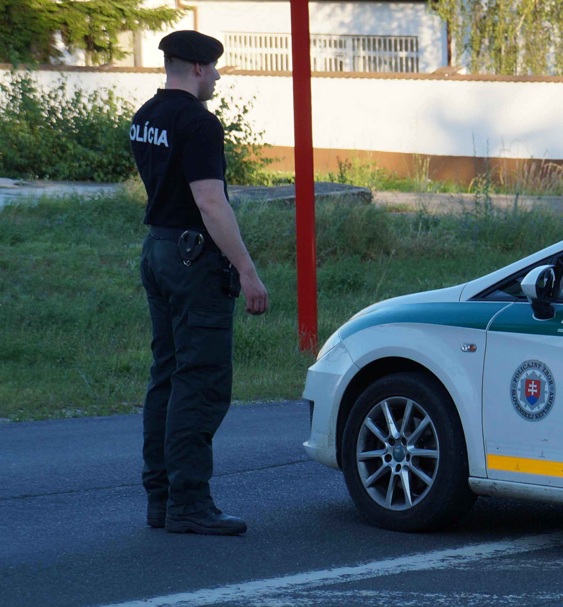 Slovak police car and police officer on duty. This image has been released into the public domain. There are no copyrights: you can use and modify this image without asking, and without attribution.